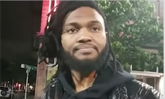 Raz Simone interviewed by Rainier Avenue Radio at the people's street occupation at Capital Hill, Seattle in June 2020